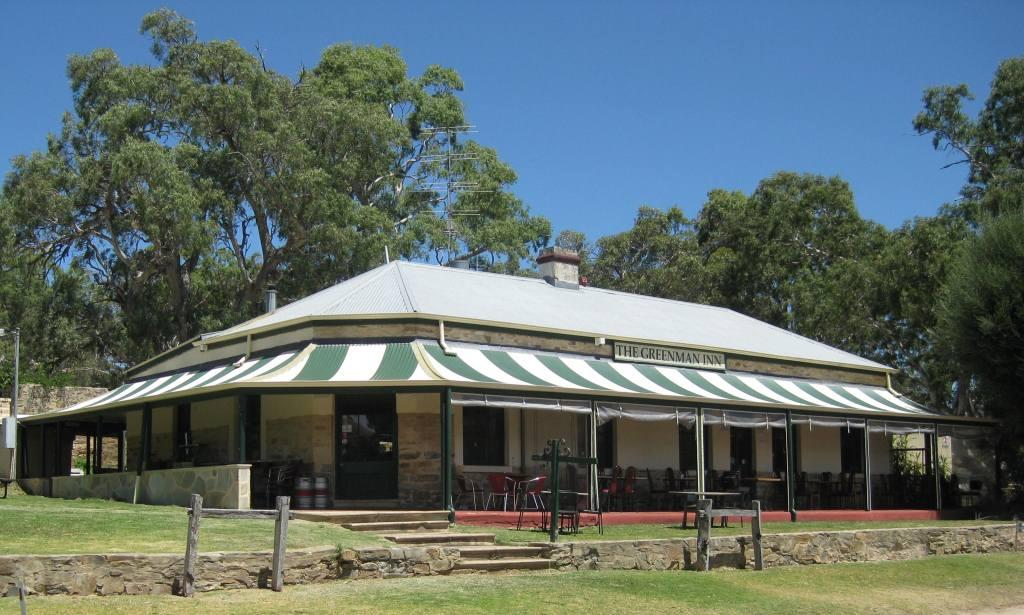 The Greenman Inn, a hotel located in the small Fleurieu Peninsula town of Ashbourne, South Australia.